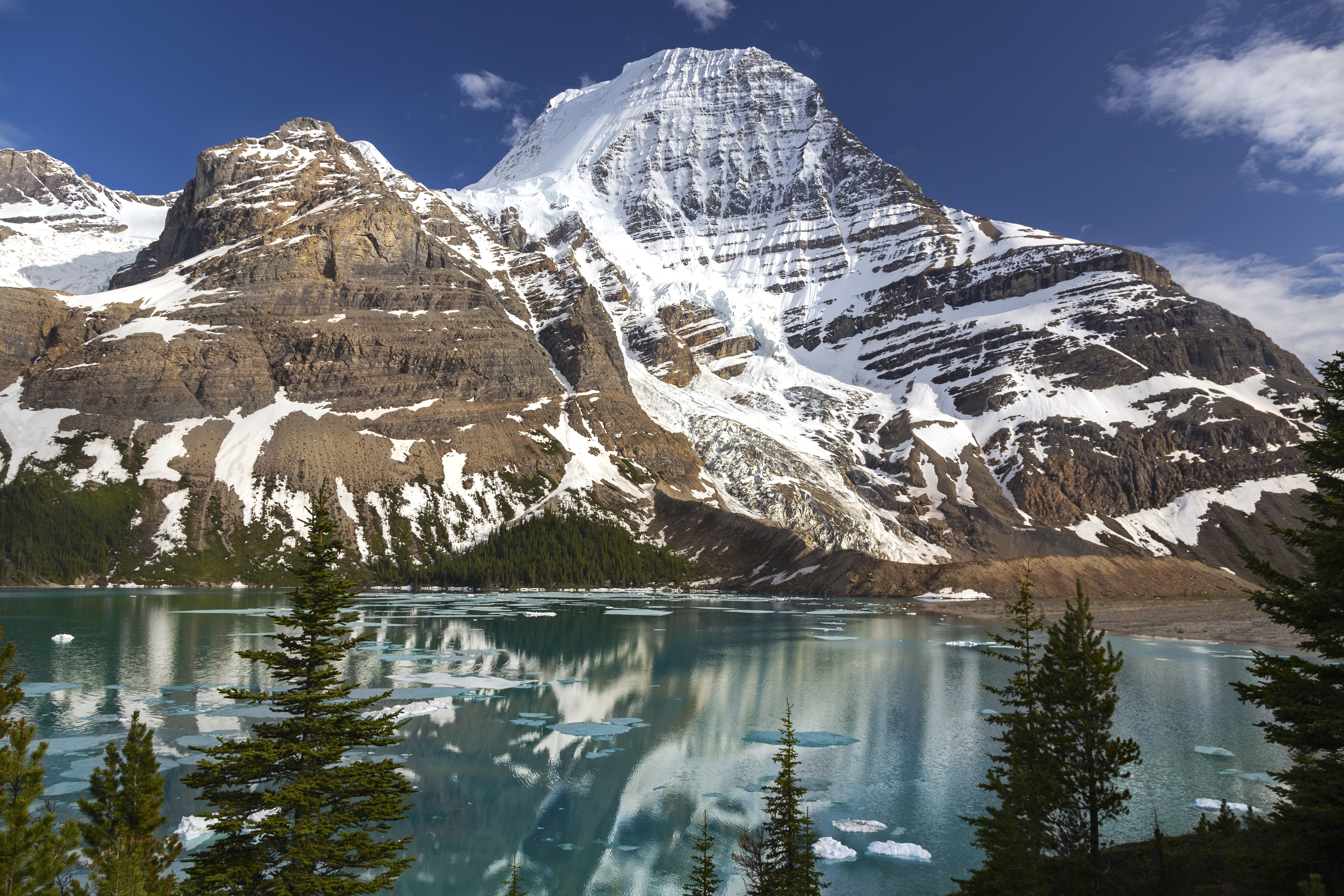 View across Berg Lake to Mount Robson in British Columbia, Highest Peak in Canadian Rocky Mountains (3954m) This photo was taken in a protected area in Canada, Wikidata item Mount Robson Provincial Park (Q1950710)